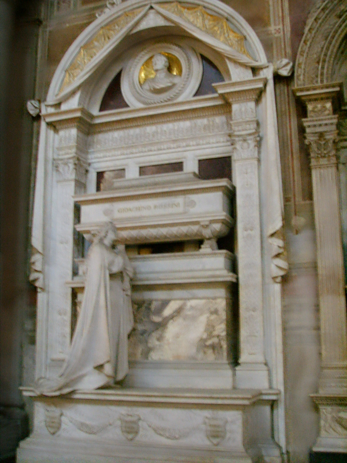 Cenotaph of composer Gioacchino Rossini at Santa Croce (Florence), Italy. This image is blurry. The images included in this category could be candidates for deletion if an identical image with an improved quality is provided. Some pictures are blurred intentionally. Those should not be deleted but placed in Category:Intentionally blurred images.